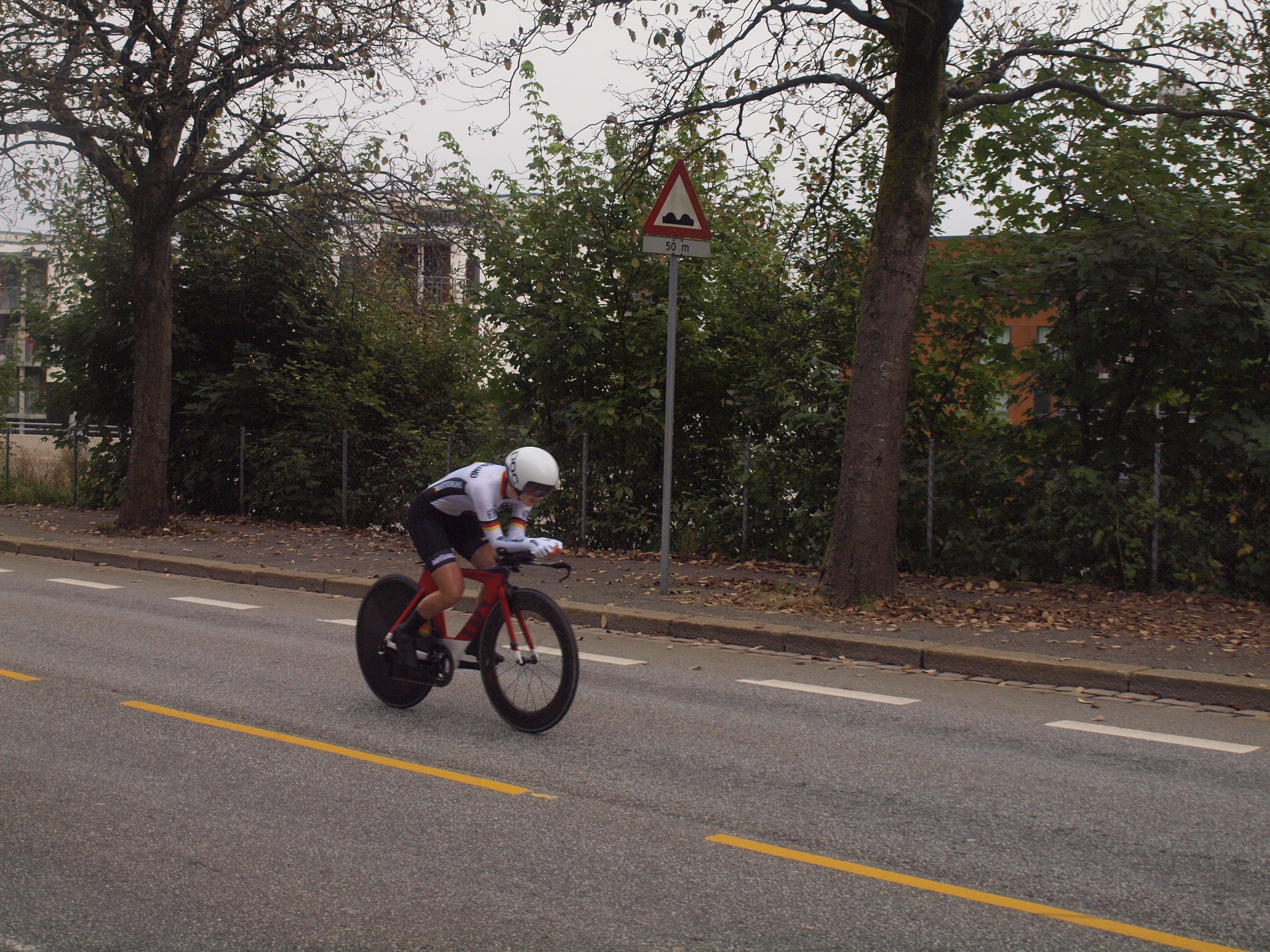 Madeleine Fasnacht at the 2017 UCI World Championships